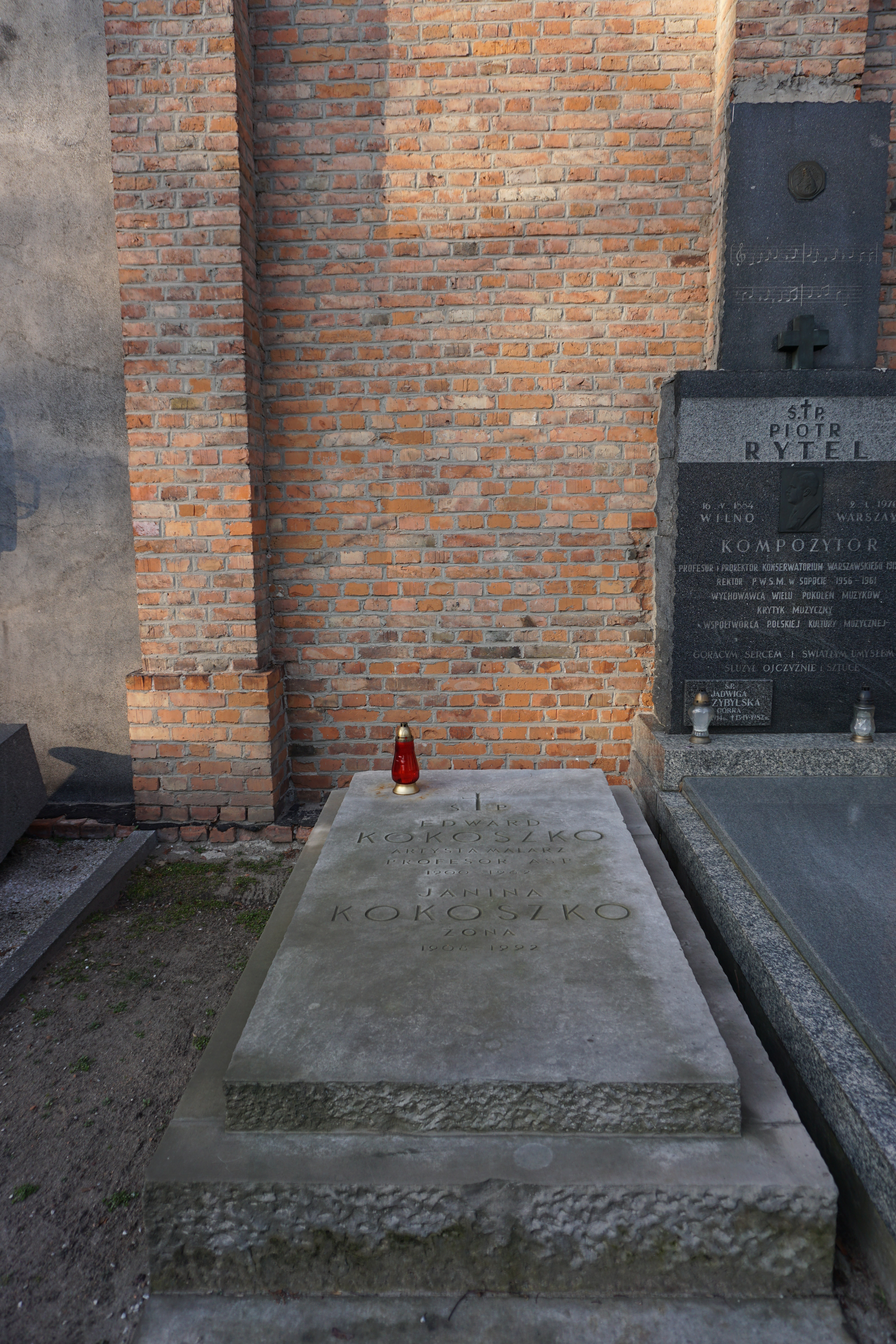 The grave of Edward Kokoszka at the Powązki Cemetery (Avenue of Deserved, grave 118)